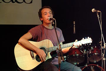 Mike Francis performing at "The Place" in Rome, 22 february 2006